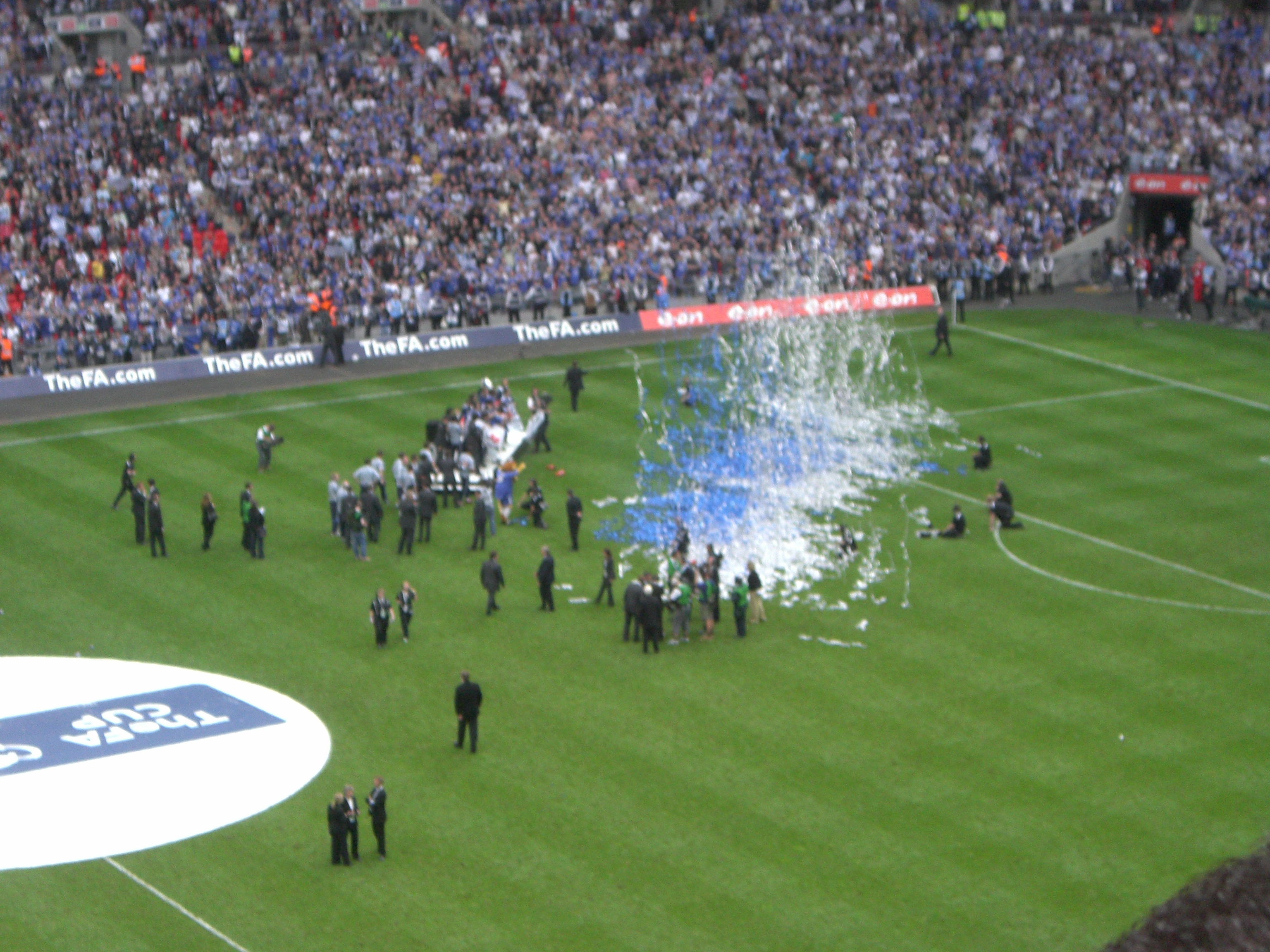 FA-cup final at New Wembley: Chelsea vs Man. United 0-1 a.e.t.